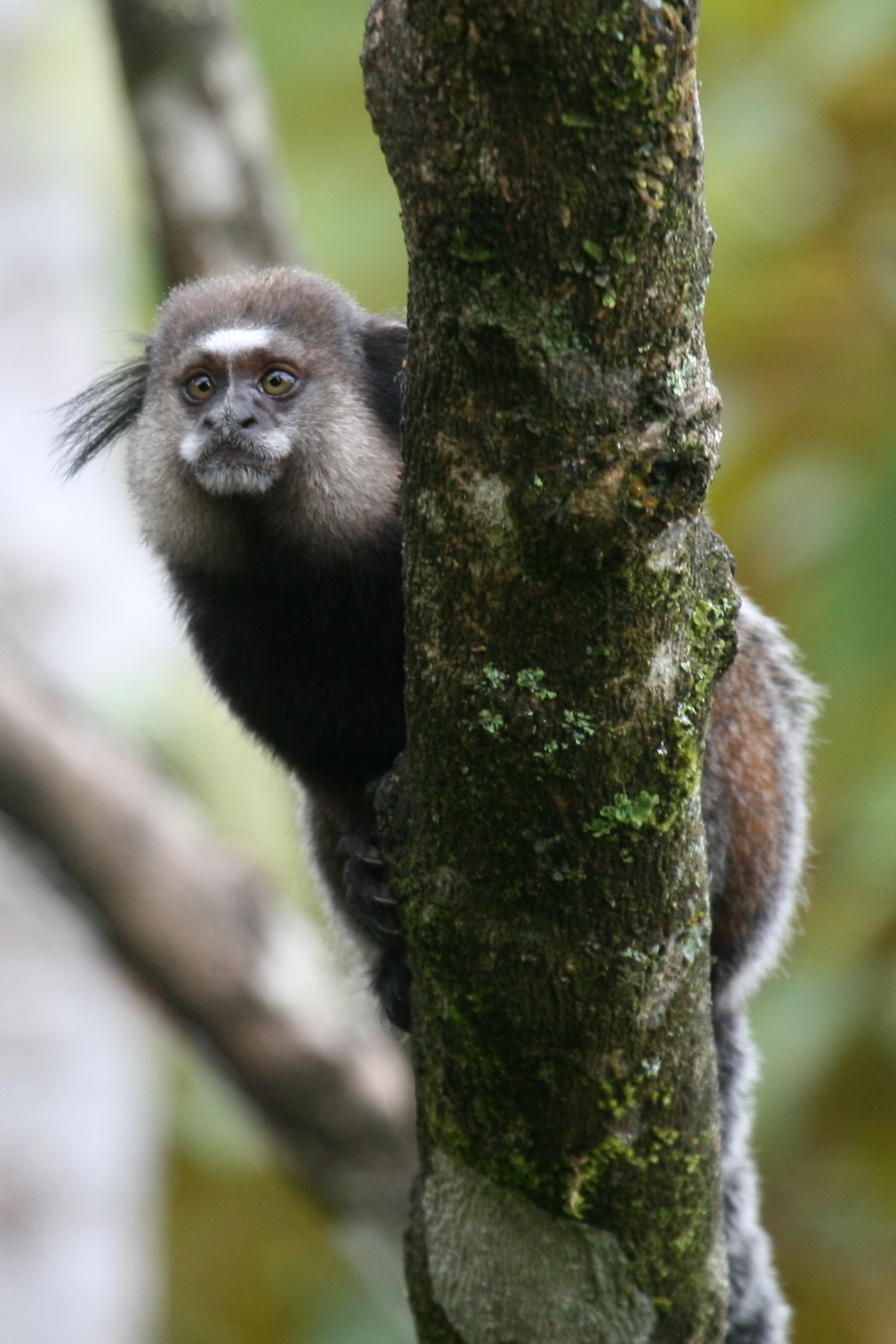 Wied's Tufted-Ear Marmoset in Southern Bahia.